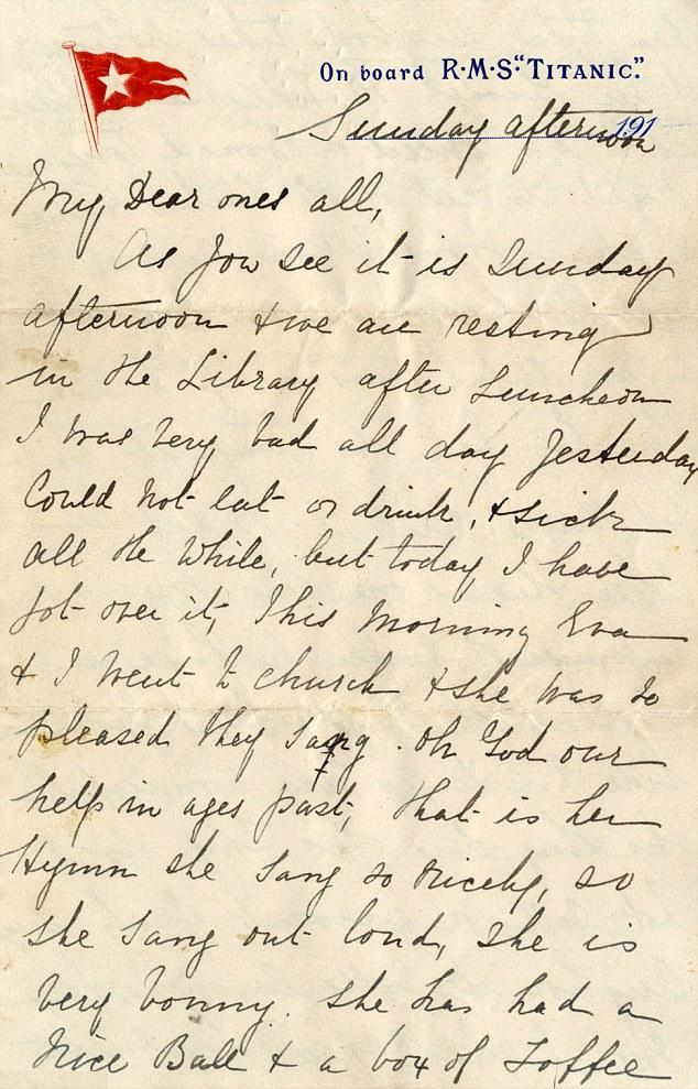 Letter written by Esther and Eva Hart (mother and daughter) to the first's mother, the night of the sinking of the Titanic.